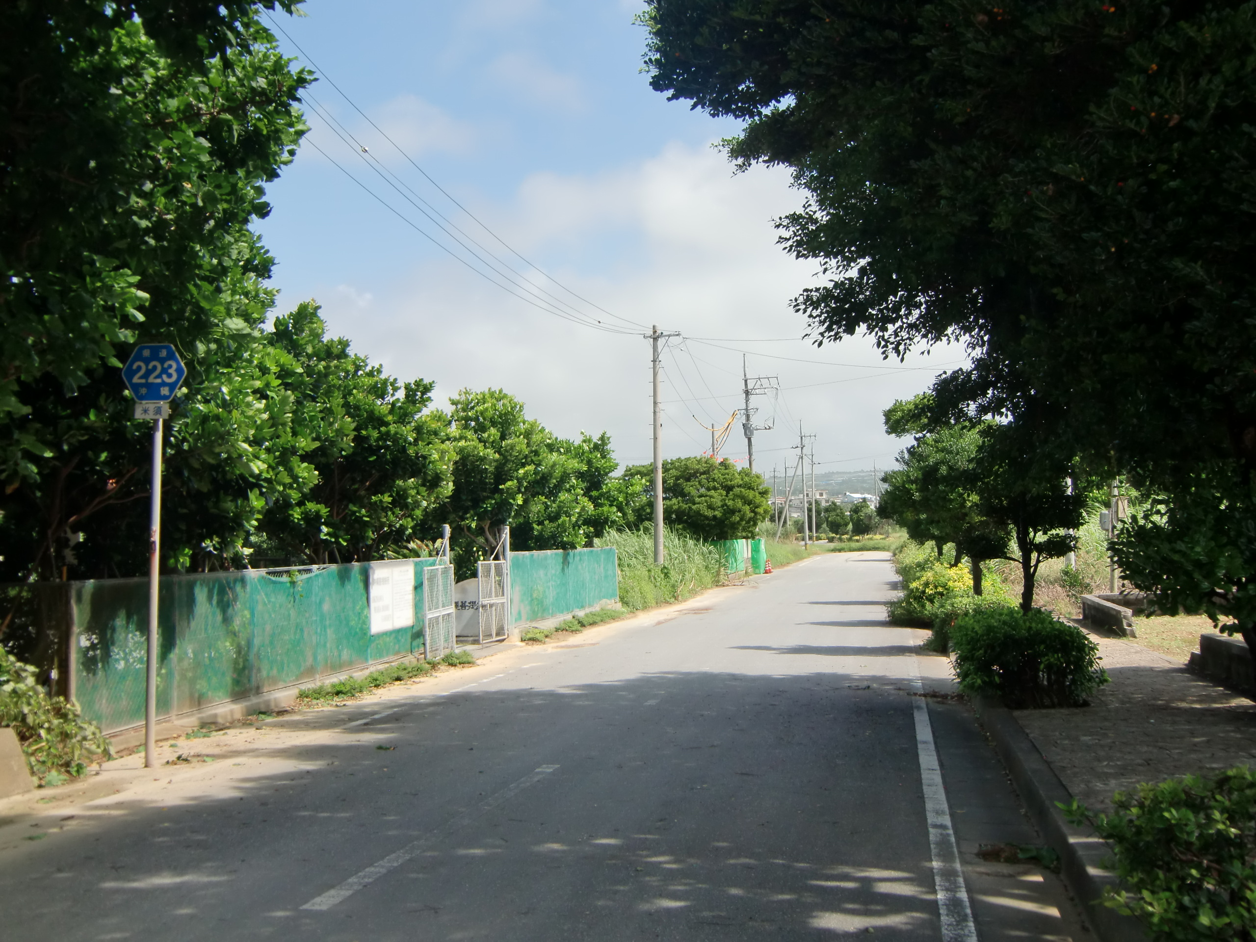 Okinawa prefectural road 223(Konpakunotōu line) in Kosemu, Itoman city, Okinawa pref., Japan.